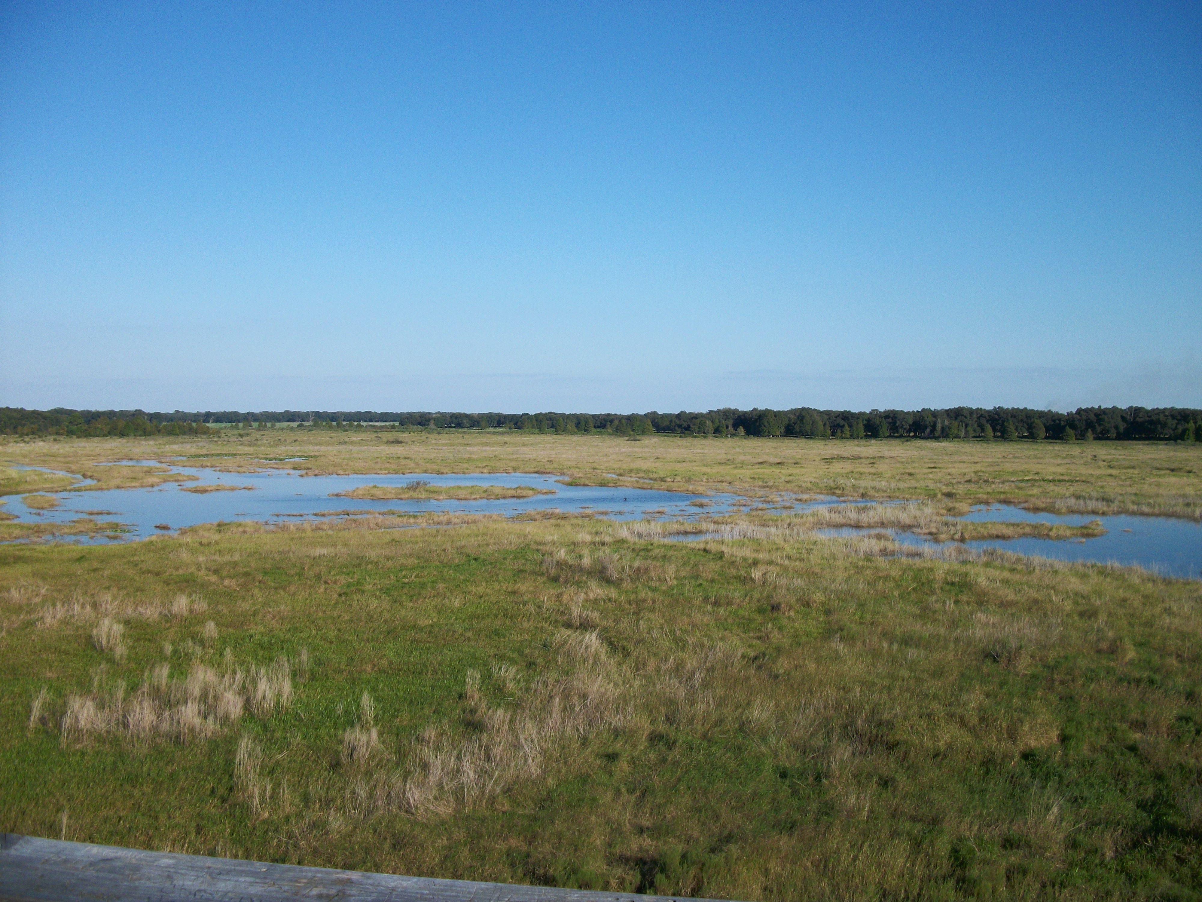 Drought-stricken, and SWFWMD-stricken Crews Lake in Shady Hills, Florida. This lake is the source for the Pithlachascotee River. Remarkably, this isn't the lowest water level the lake has had.